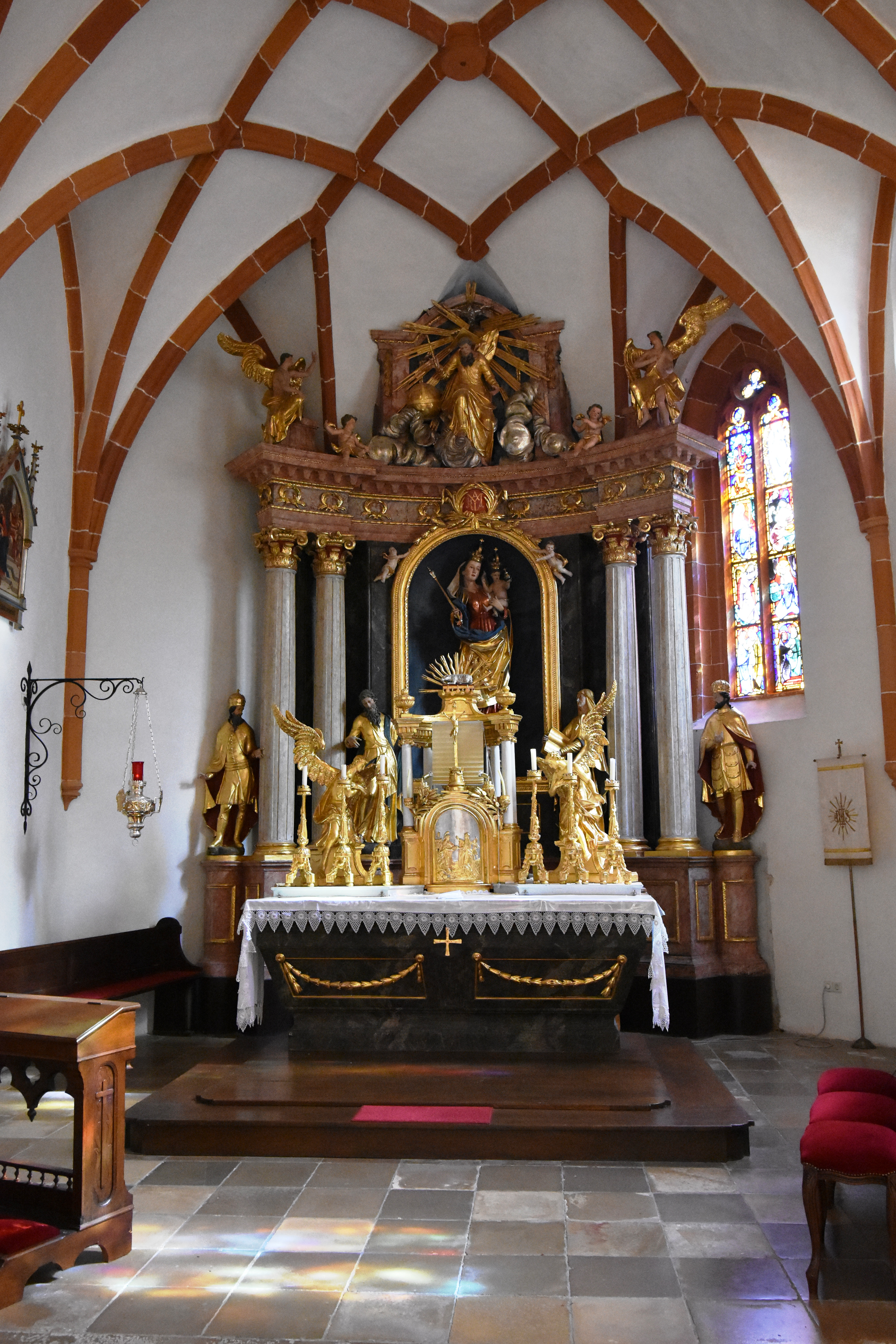 Church Gaas - Interior